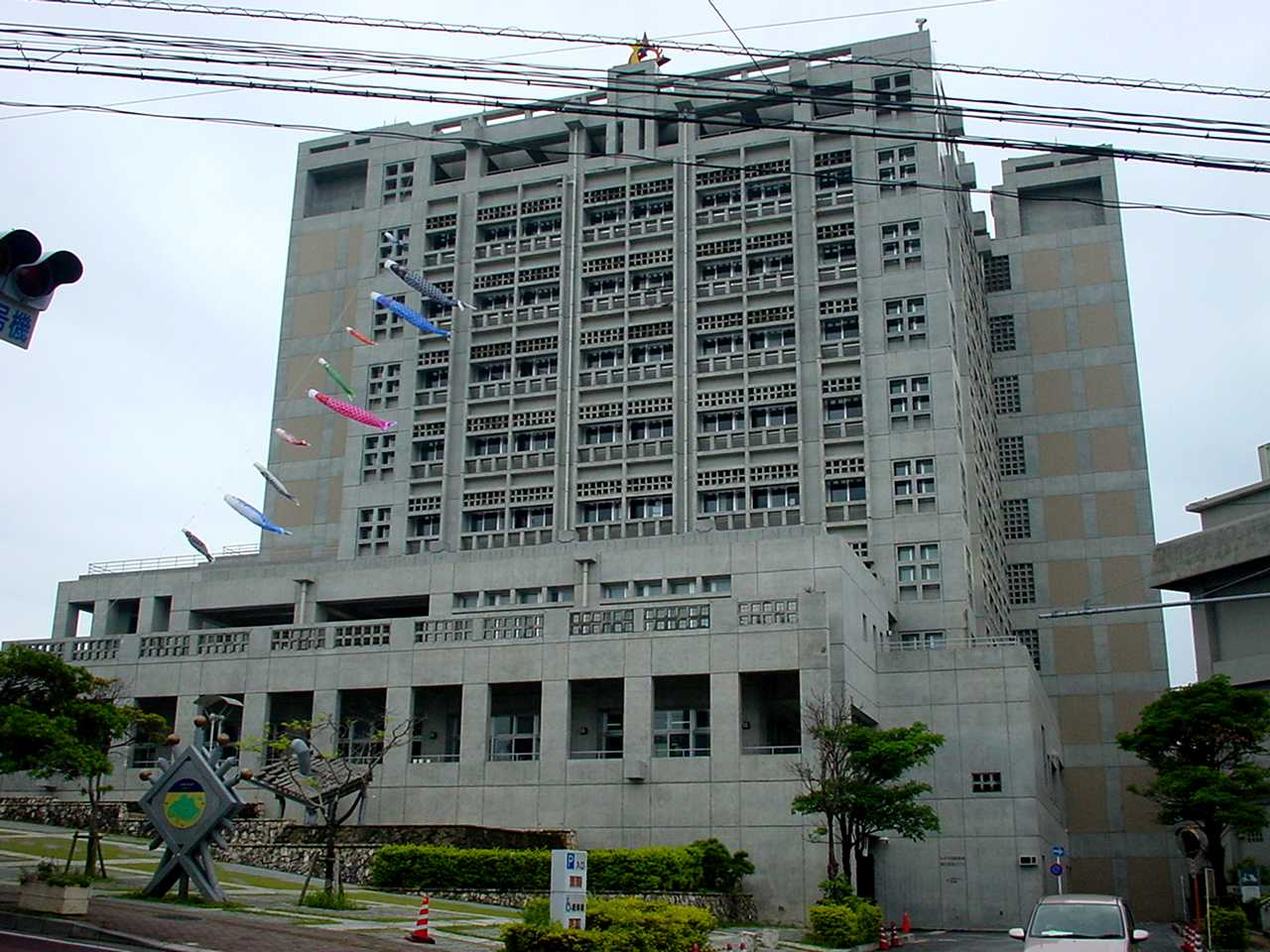 Urasoe City Hall in Okinawa, Japan.